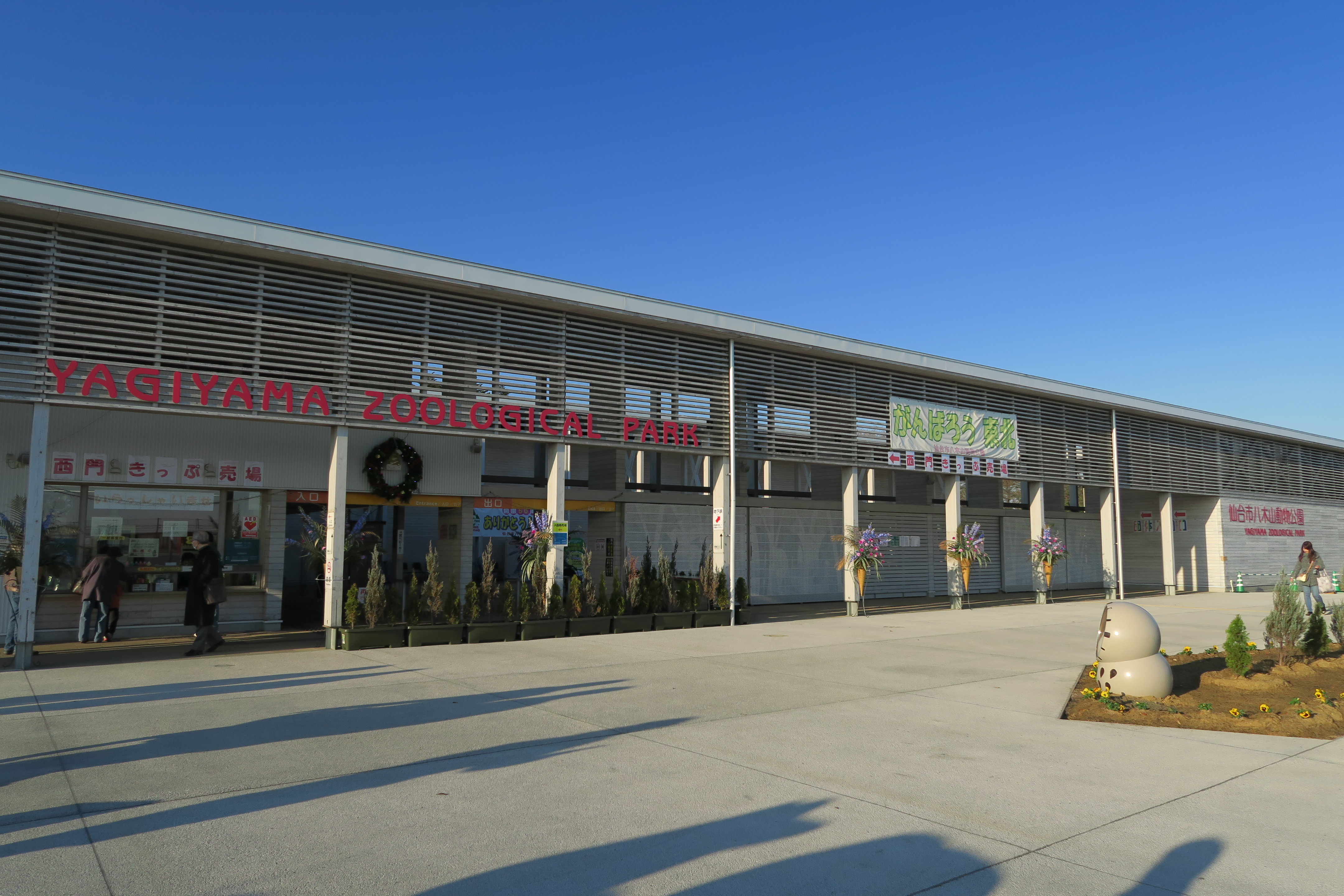 West gate at Yagiyama Zoological Park in Sendai City, Miyagi Prefecture, Japan